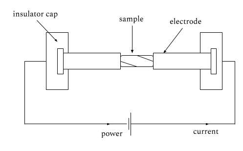 General process of ohmic heating for food processing